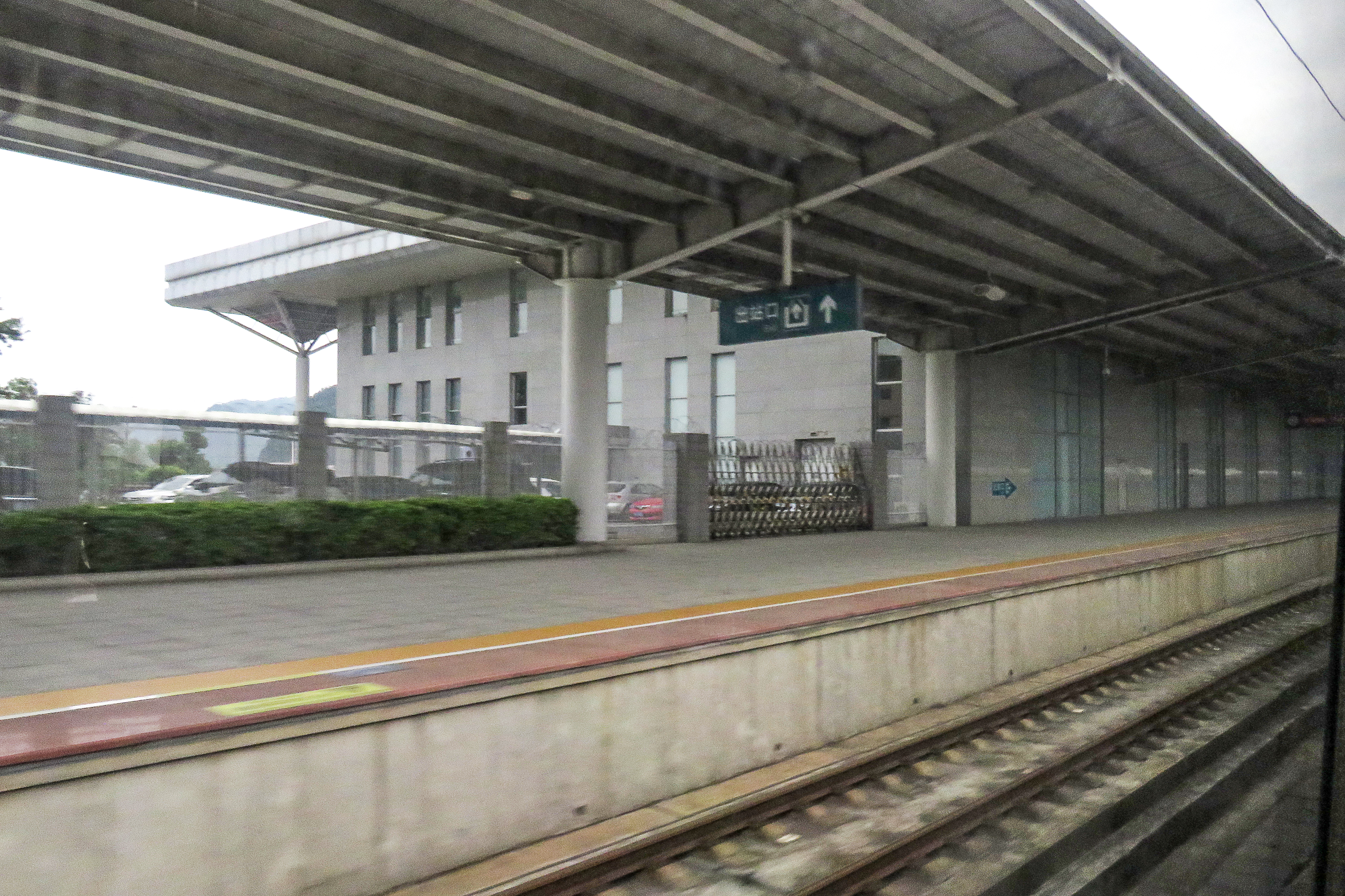 Three countries in one station - Britain, Germany and Spain...